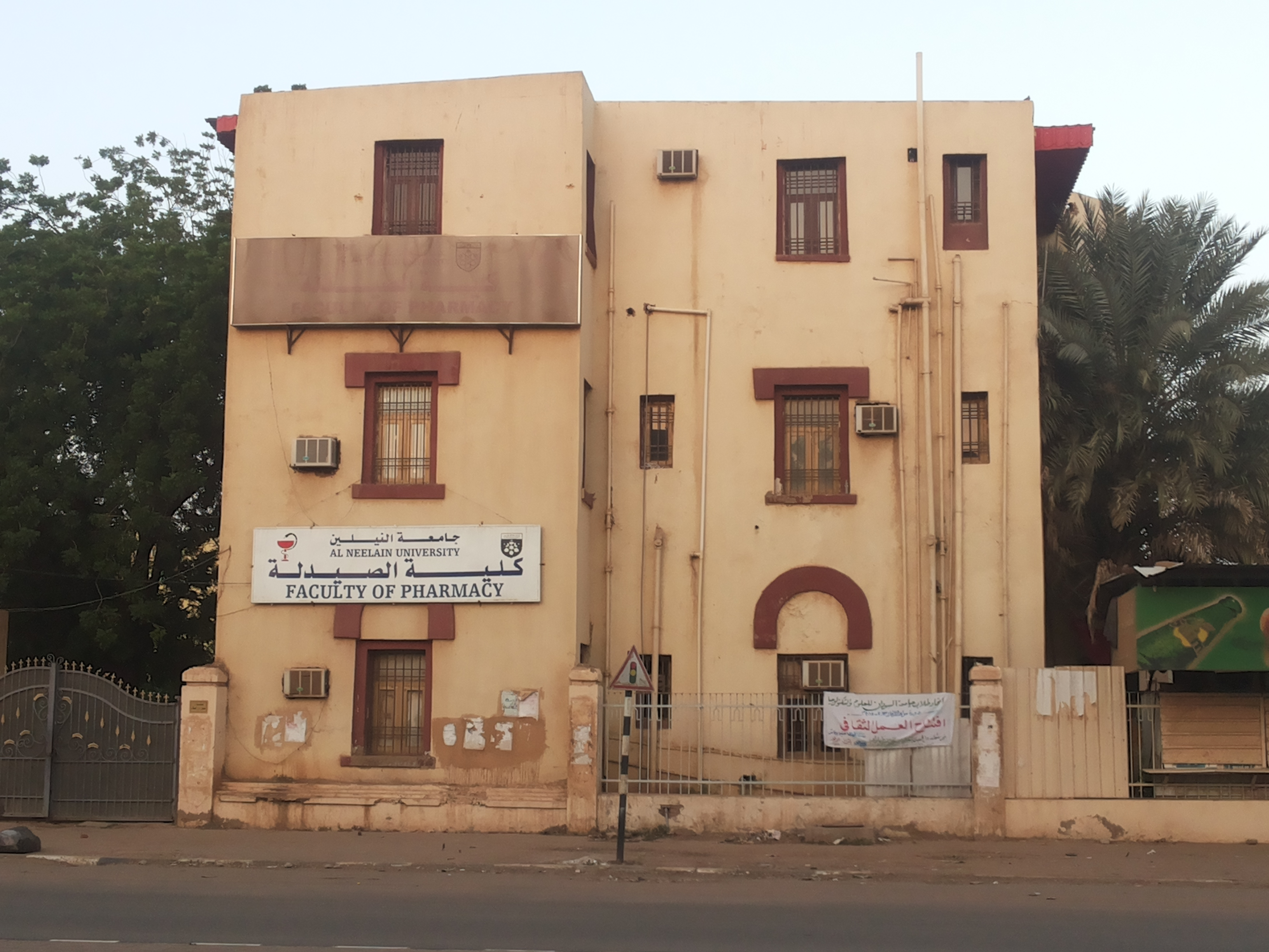 Faculty of Pharmacy, Khartoum University